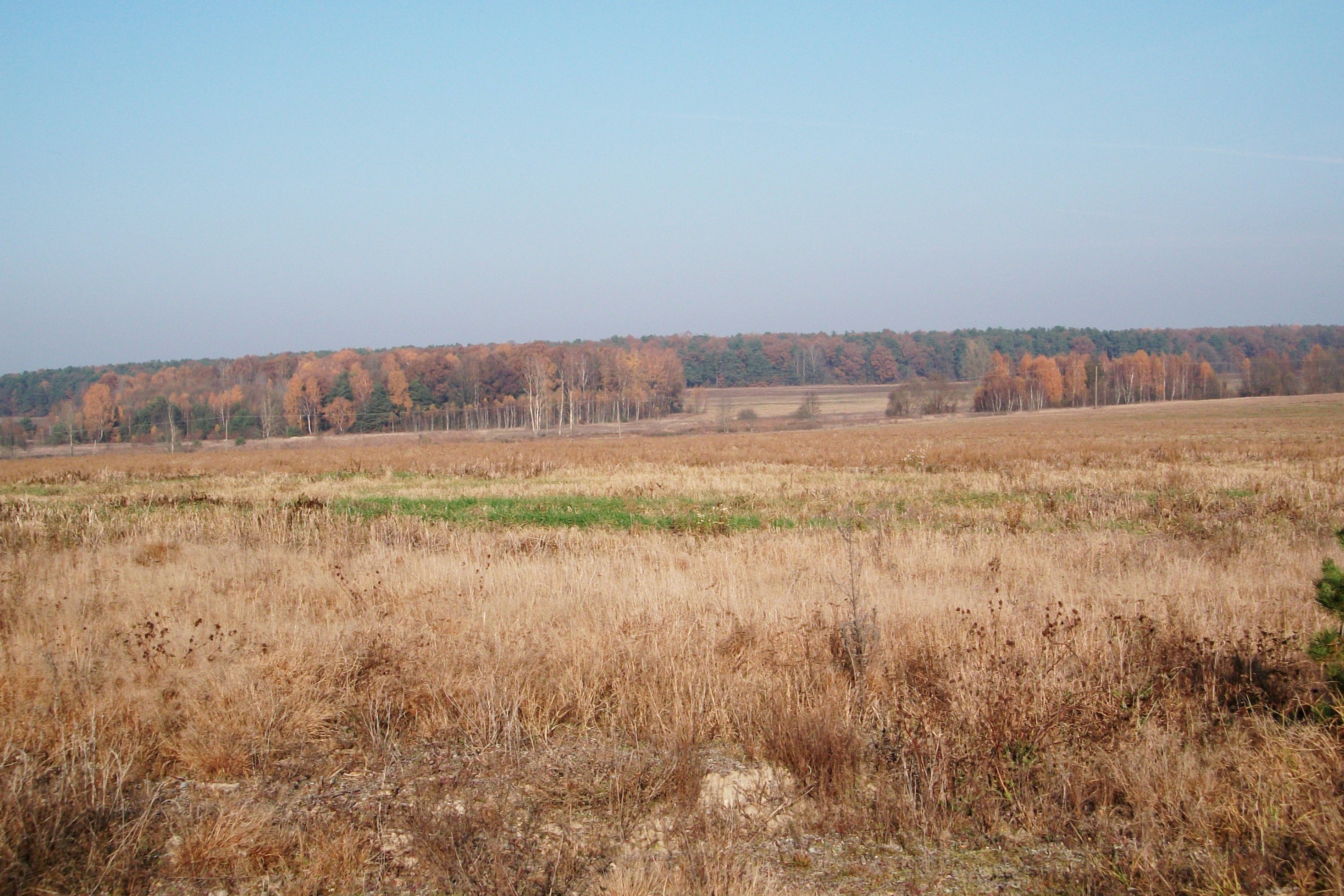 Prybuzhskaya Plain